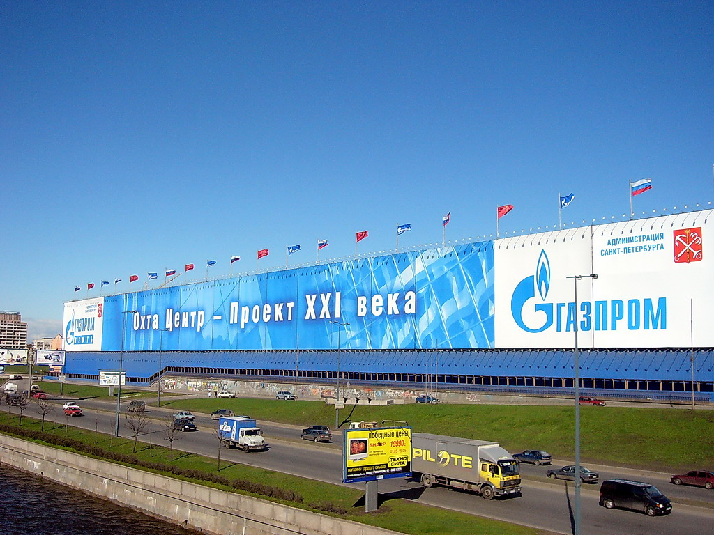 Okhta Center construction site